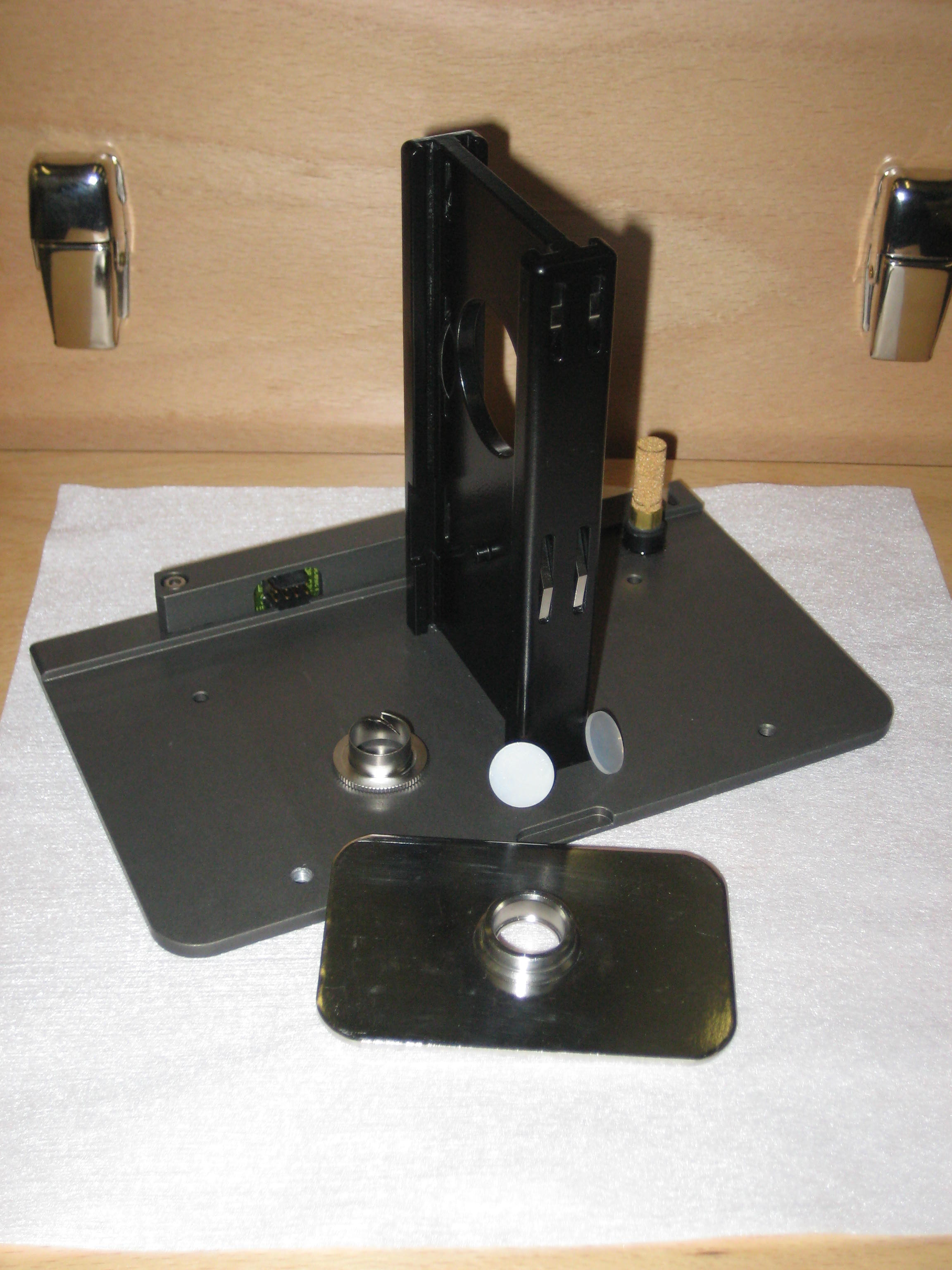 Simple transmission holder for infrared spectroscopy of 13 mm KBr pellets.